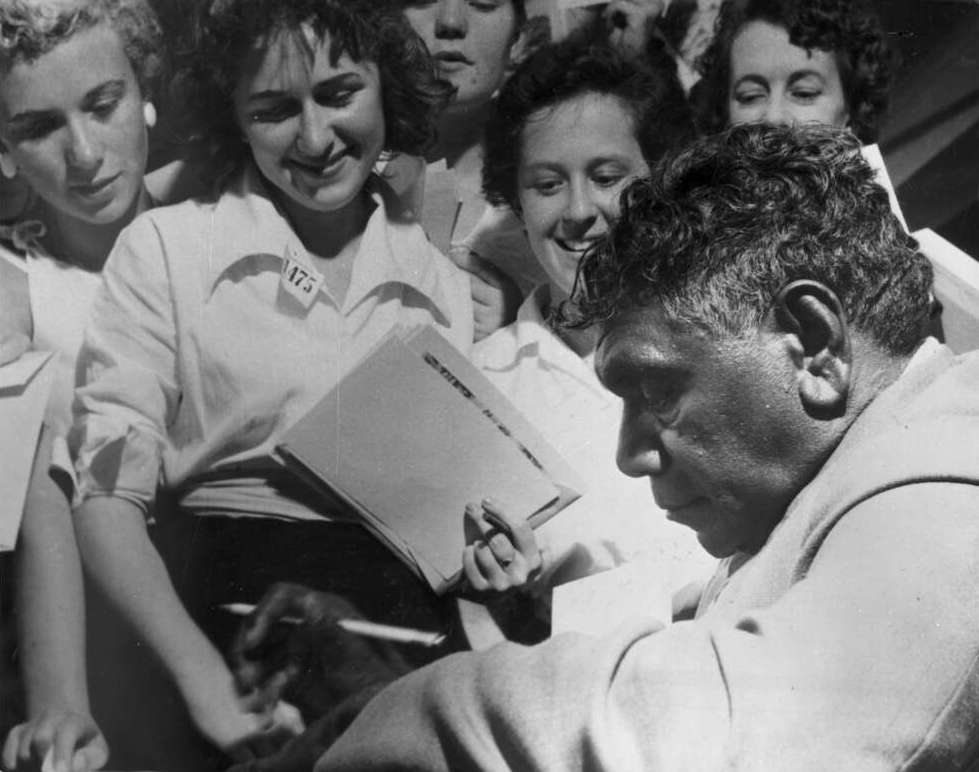 Indigenous Australian artist Albert Namatjira signing autographs.